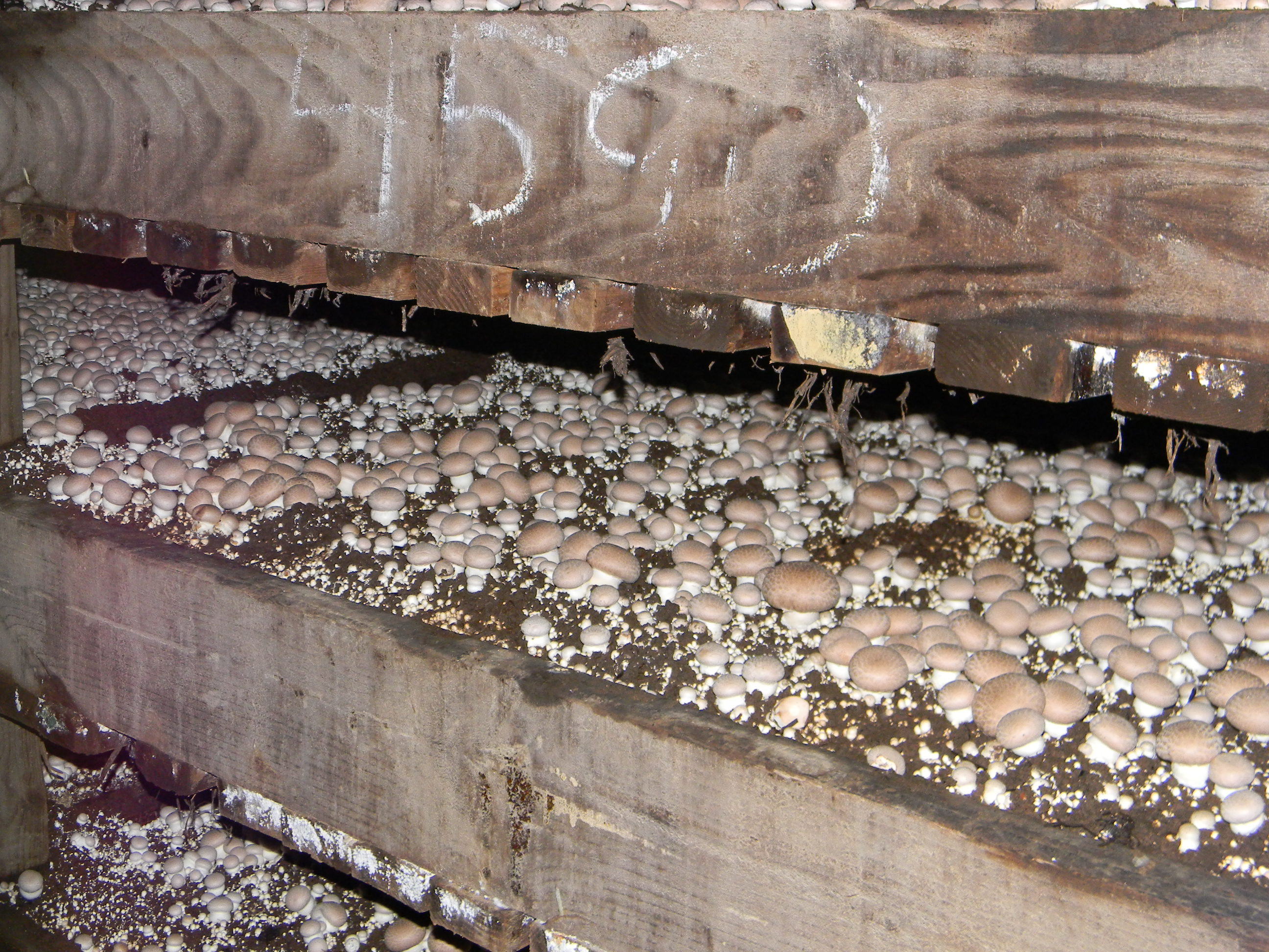 Agaricus bisporus (J.E. Lange) Pilát Location: Ostrom’s Mushrooms, Mushroom Corner, Lacey, Washington, USA Observation Notes: of course I did sense your sarcasm, but in my response to your pretended to be unware of it. I do believe in natural organic fertilizers, and their use would not deter me from buying foods, like mushrooms… For more information about this, see the observation page at Mushroom Observer.